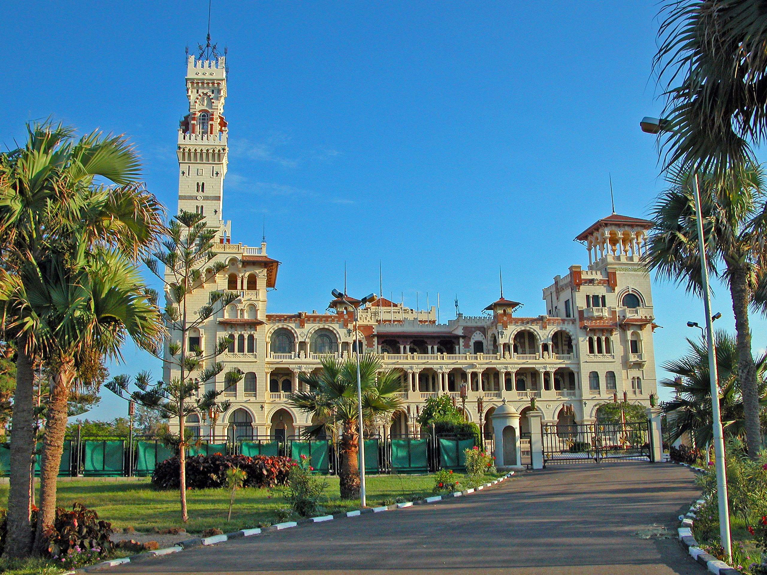 Al-Montazah Palace overlooks the beach and has 375 acres of gardens and woods. It is the summer residence of the former royal family. Montazah Bay , Egypt